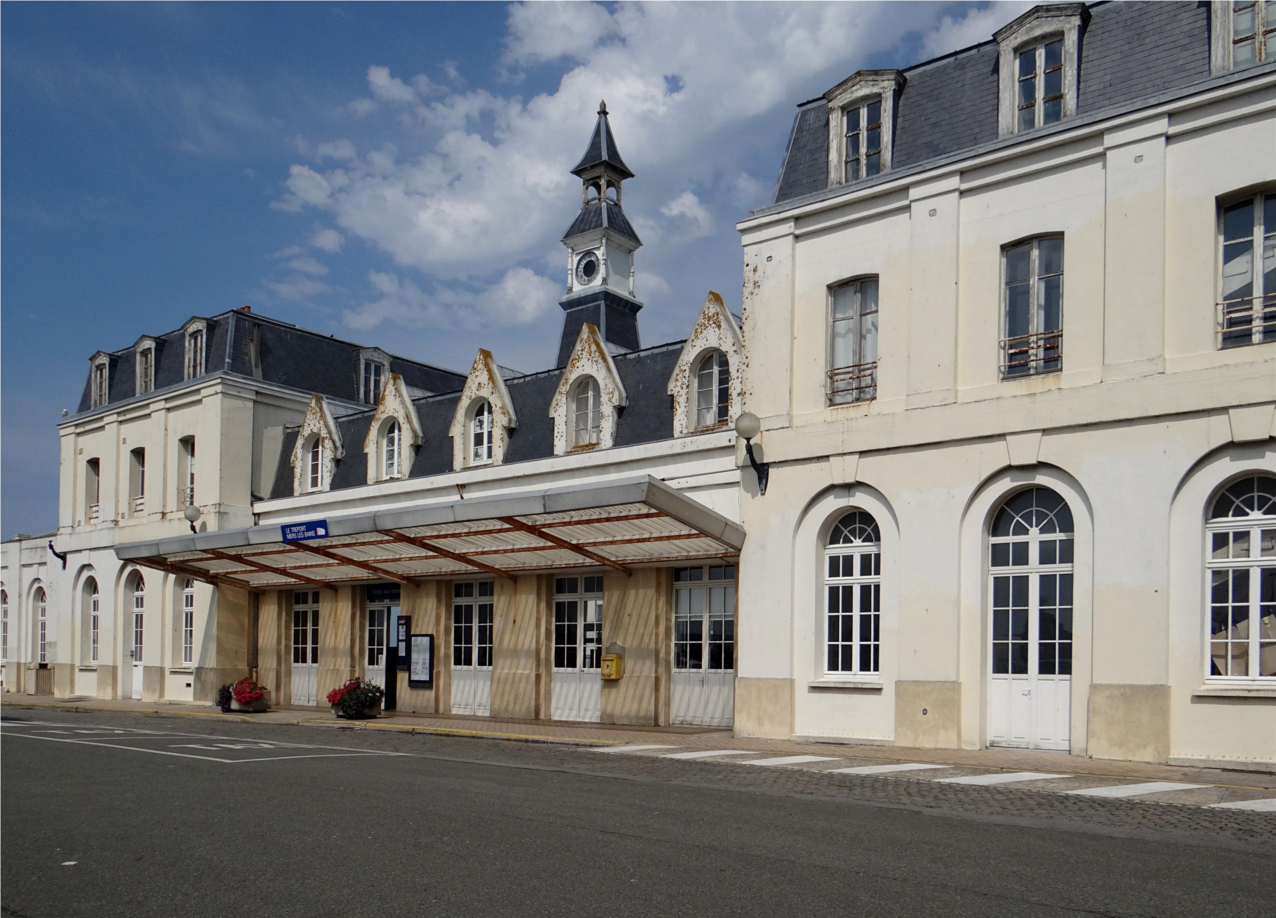 Station LeTréport - Mers, common Tréport, Seine-Maritime, France.